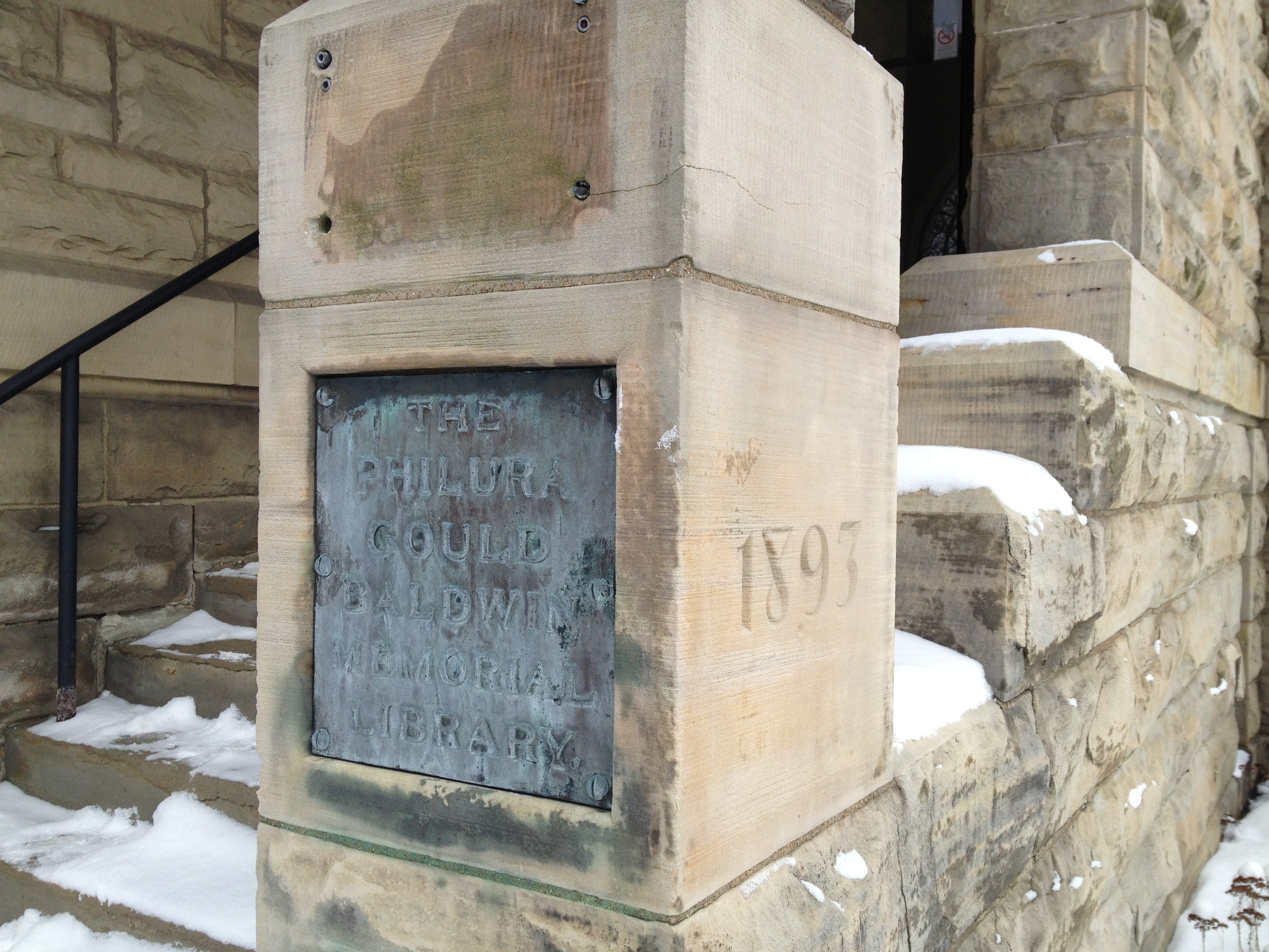 Baldwin Library part of the Malicky Center on Baldwin Wallace University North Campus